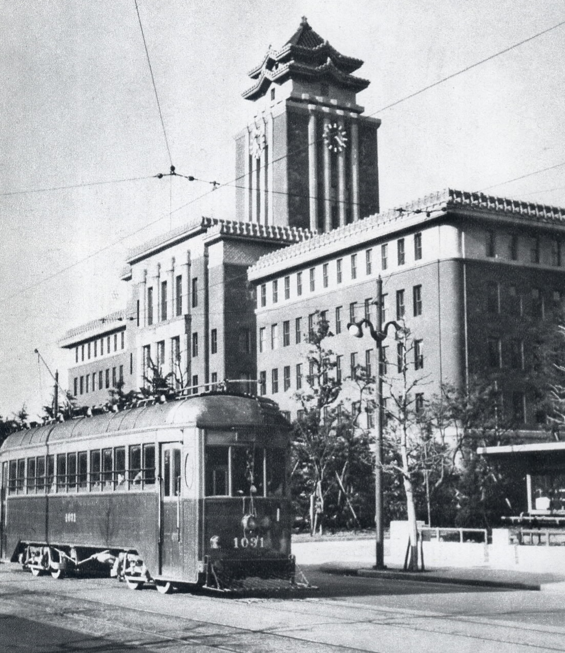 Front of city hall. TBCN Kakunai Line in Nagoya